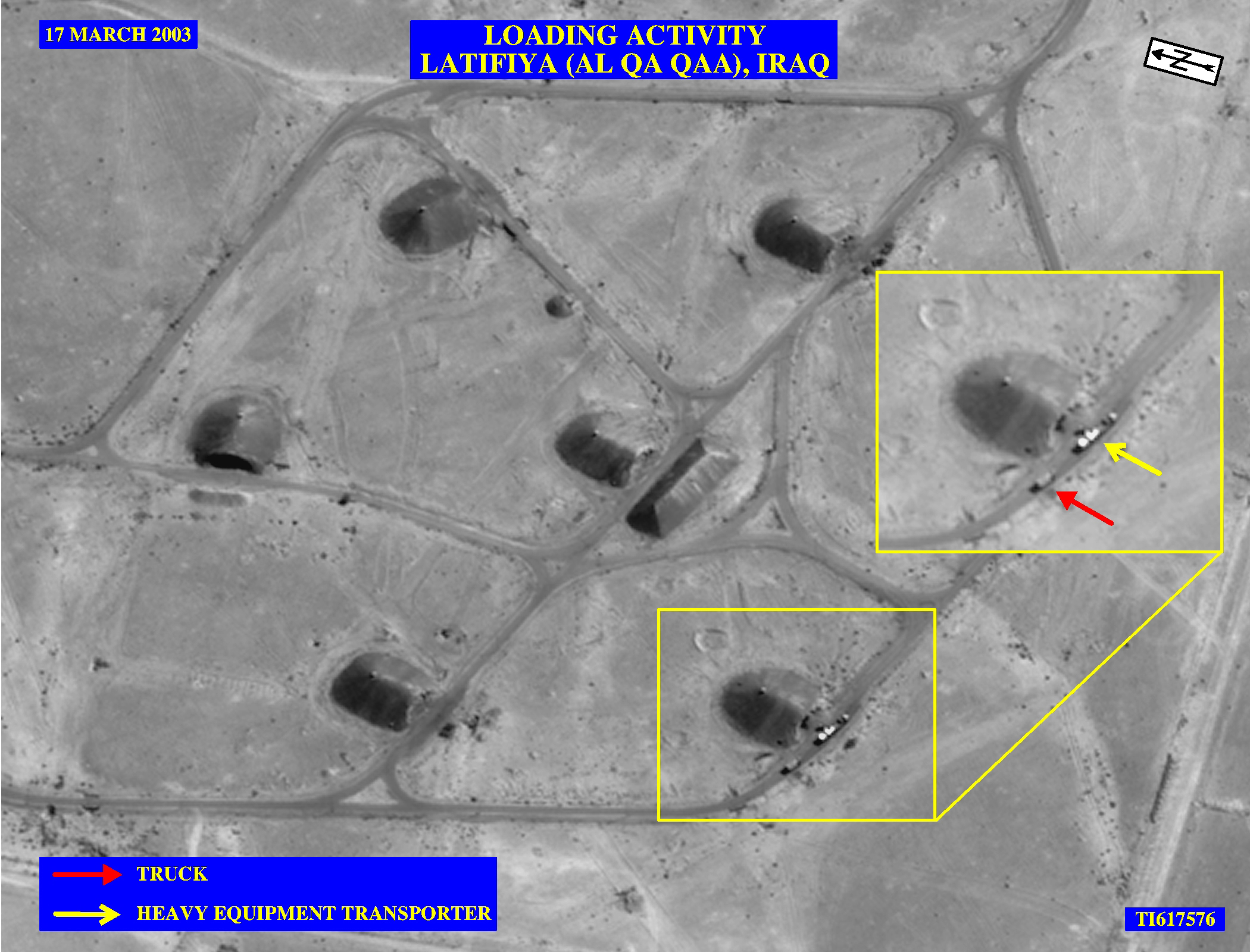 This picture shows two trucks parked outside one of the 56 bunkers of the Al Qa Qaa Explosive Storage Complex approximately 20 miles south of Baghdad, Iraq, on March 17, 2003. It is not believed that all 56 bunkers contained High Melting Explosive also known as HMX. A large, tractor-trailer (yellow arrow) is loaded with white containers with a smaller truck parked behind it. The International Atomic Energy Agency inspectors identified bunkers in this complex as containing High Melting Explosive. We believe members of the United Nations Monitoring, Verification and Inspection Commission visited the Al Qa Qaa complex on March 15, 2003, and withdrew its staff two days later on March 17. The Al Qa Qaa Explosive Storage Complex was occupied by Iraqi forces, who fired on U.S. forces when they entered on April 3, 2003.